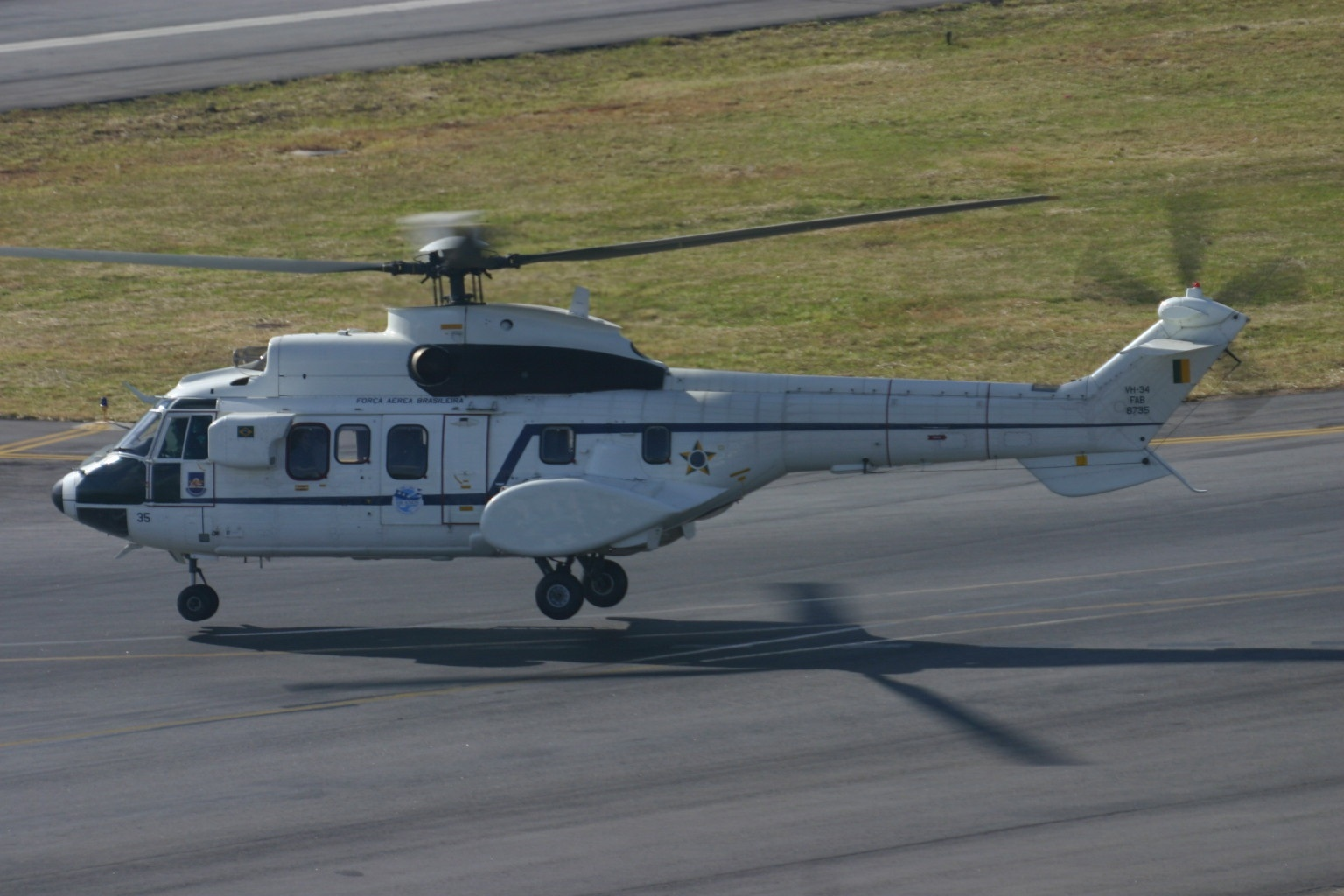 At Sao Paulo Congonhas